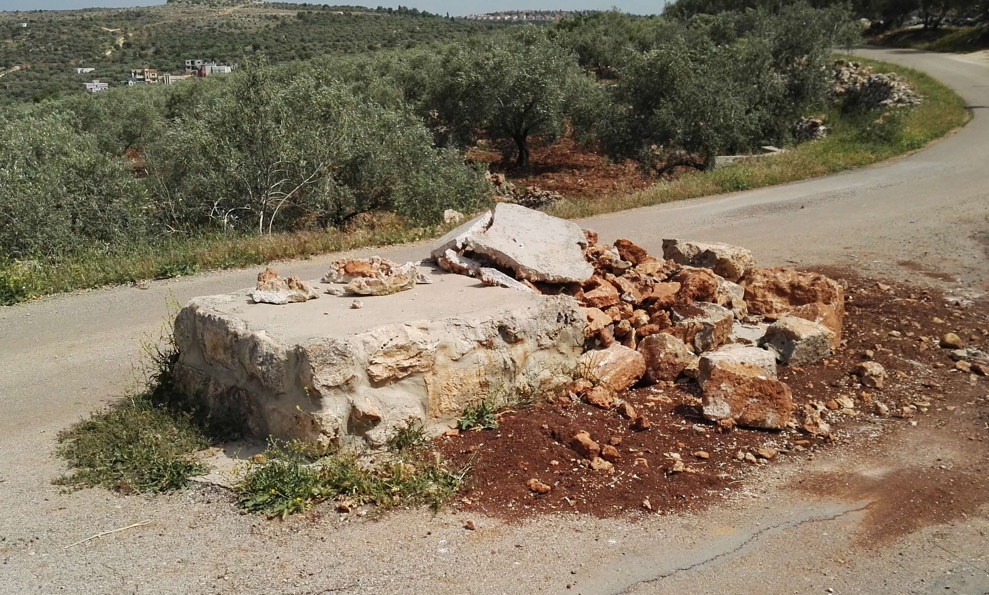 Qarawat Bani Hasan village and its surroundings, West Bank, Palestine.